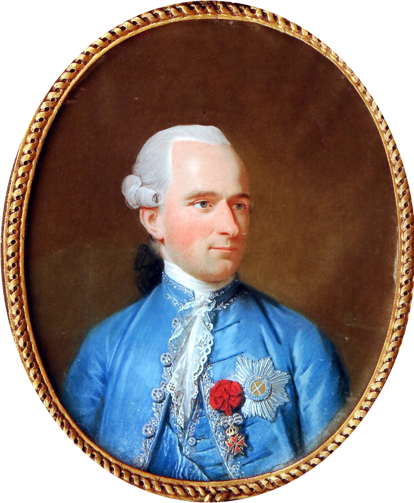 Count Camillo Marcolini. Portrait of a Nobleman, half length, wearing a blue coat and waistcoat, and wearing various chivalric orders, said to be Count Maredleme